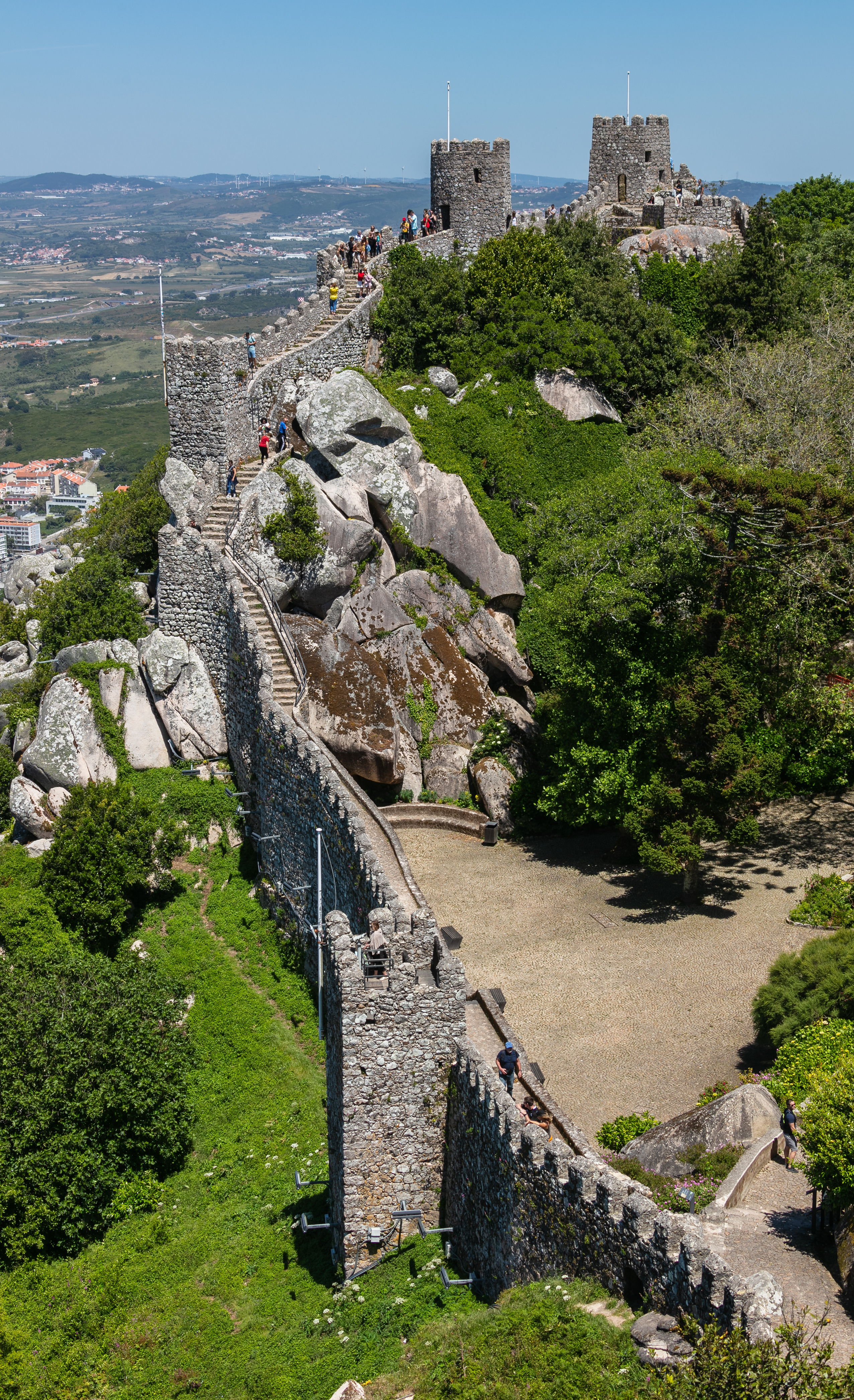 Castelo dos Mouros, Sintra, Portugal